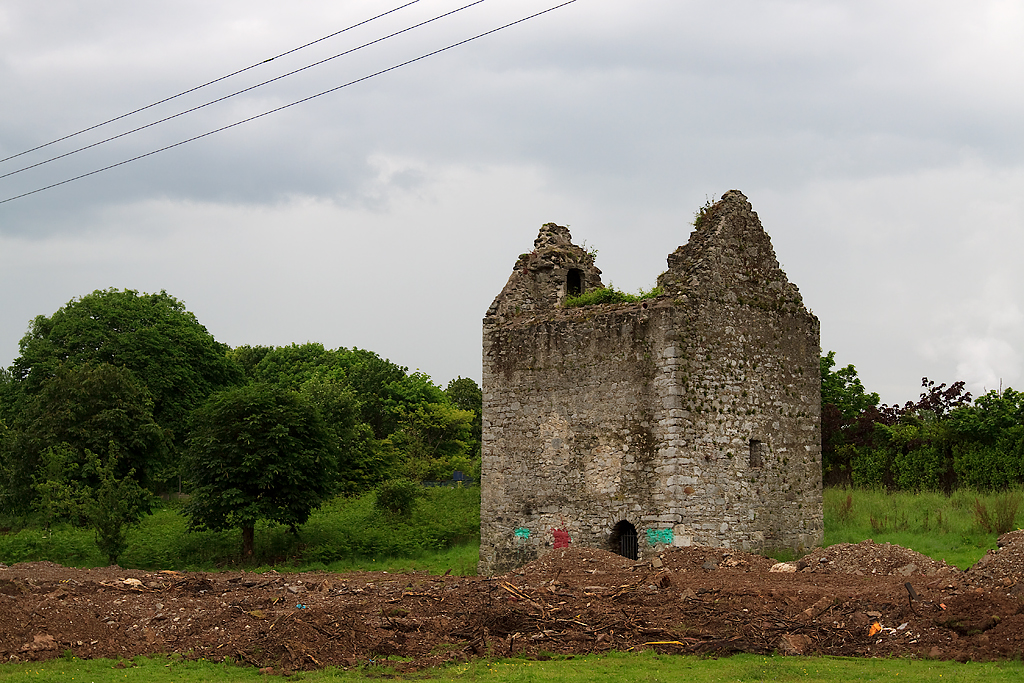 Castles of Munster: Wallingstown, Cork